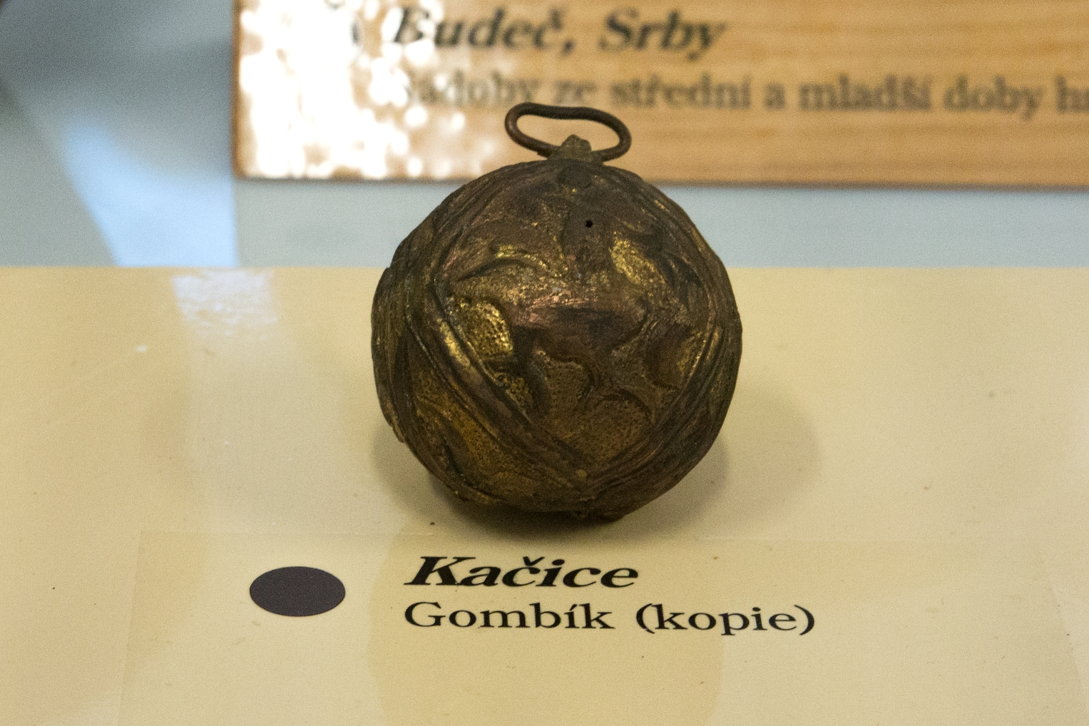 Slavic Button, modern copy. Kačice. The Sládeček Museum of Local History in Kladno.